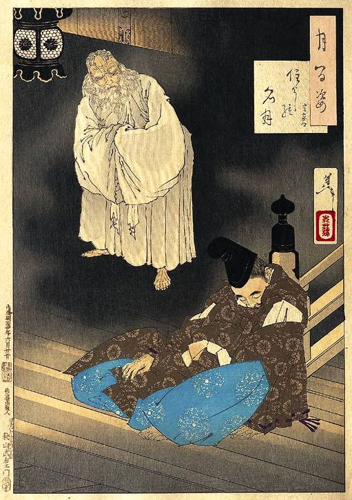 Sumiyoshi full moon (Sumiyoshi no meigetsu)